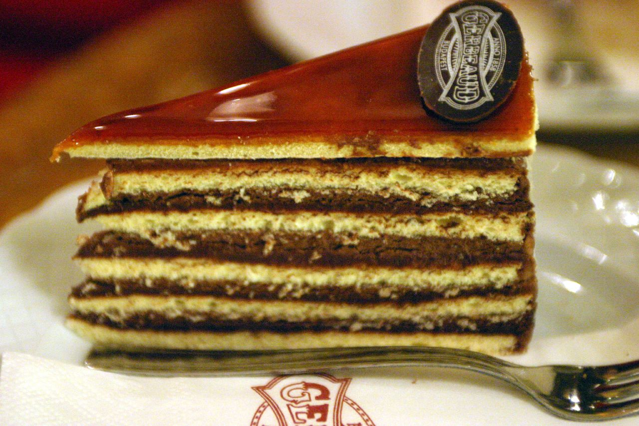 Dobos cake at Gerbeaud Confectionery Budapest, Hungary